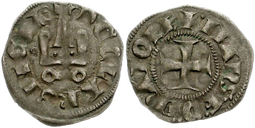 Crusades. Frankish Possessions in Greece. Achaea. Ferdinand of Majorca, Pretender. 1315-1316. BI Denier Tournois (19mm, 0.74 g, 3h). Cross pattée Châtel tournois; to left, annulet. Metcalf, Crusades, 987-992; CCS 31b.